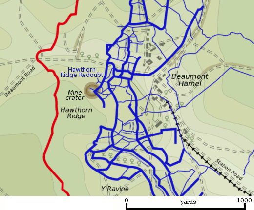 Map of the Hawthorn Ridge sector of the Somme battlefield on the first day of the Battle of the Somme, 1 July 1916. British front line is shown in red. German trenches are shown in blue. German barbed wire is shown as dotted blue lines.